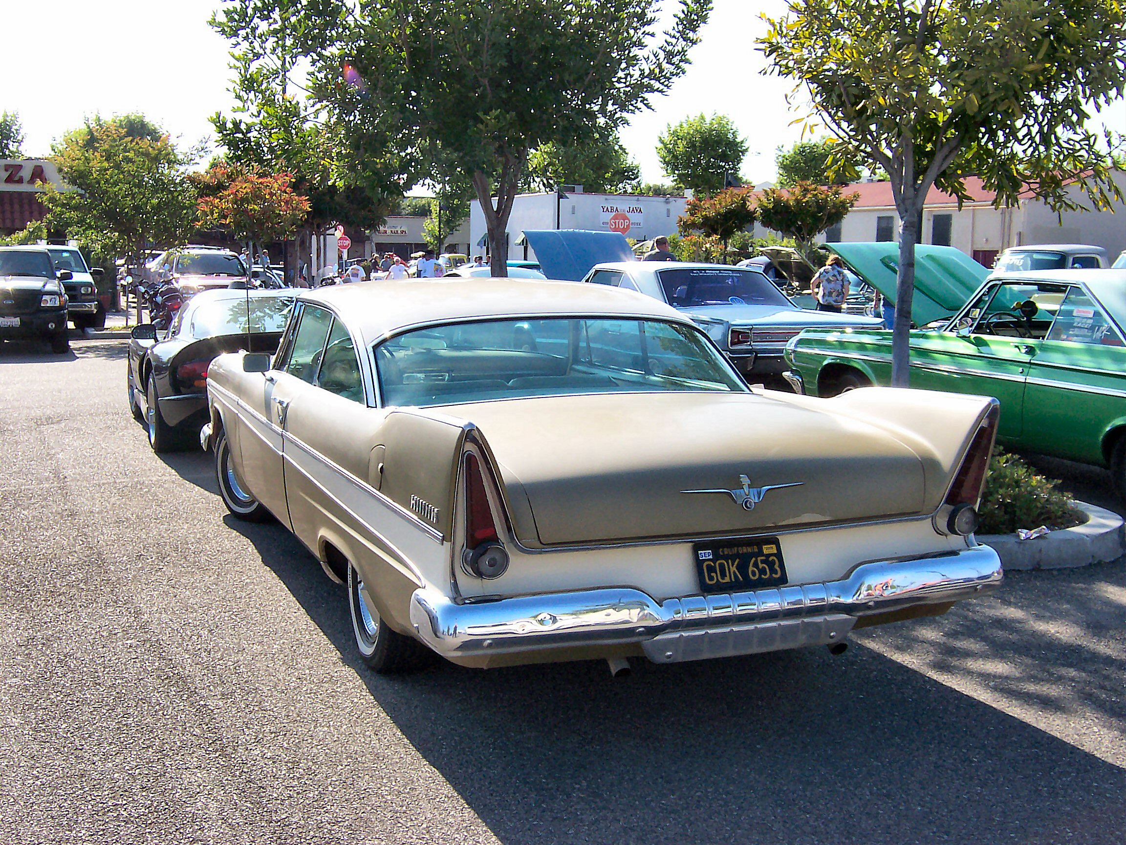 1957 Plymouth Belvedere. Photo by User:Morven at the weekly Garden Grove, California car show.